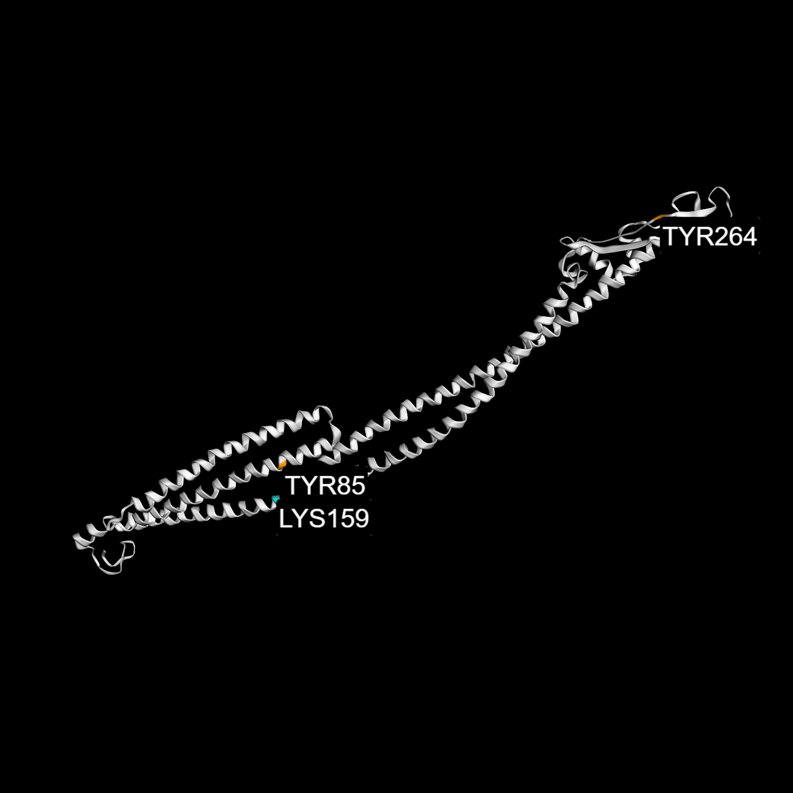 includes phosphorylation sites and a ubiquitylation site